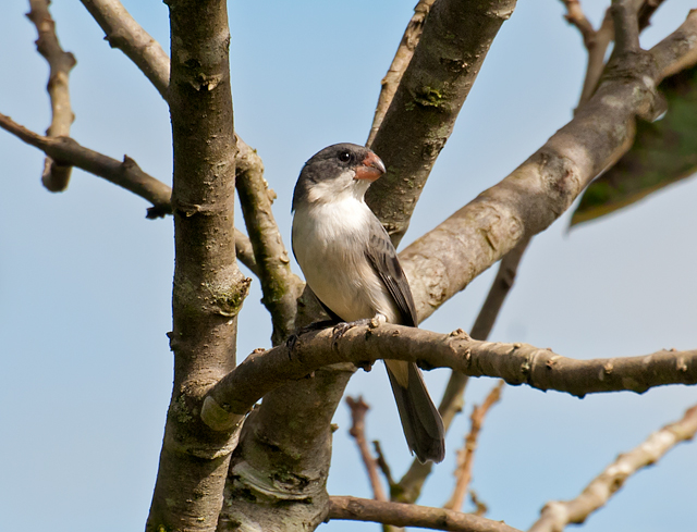 A male White-bellied Seedeater in Mogi das Cruzes, São Paulo, Brazil.